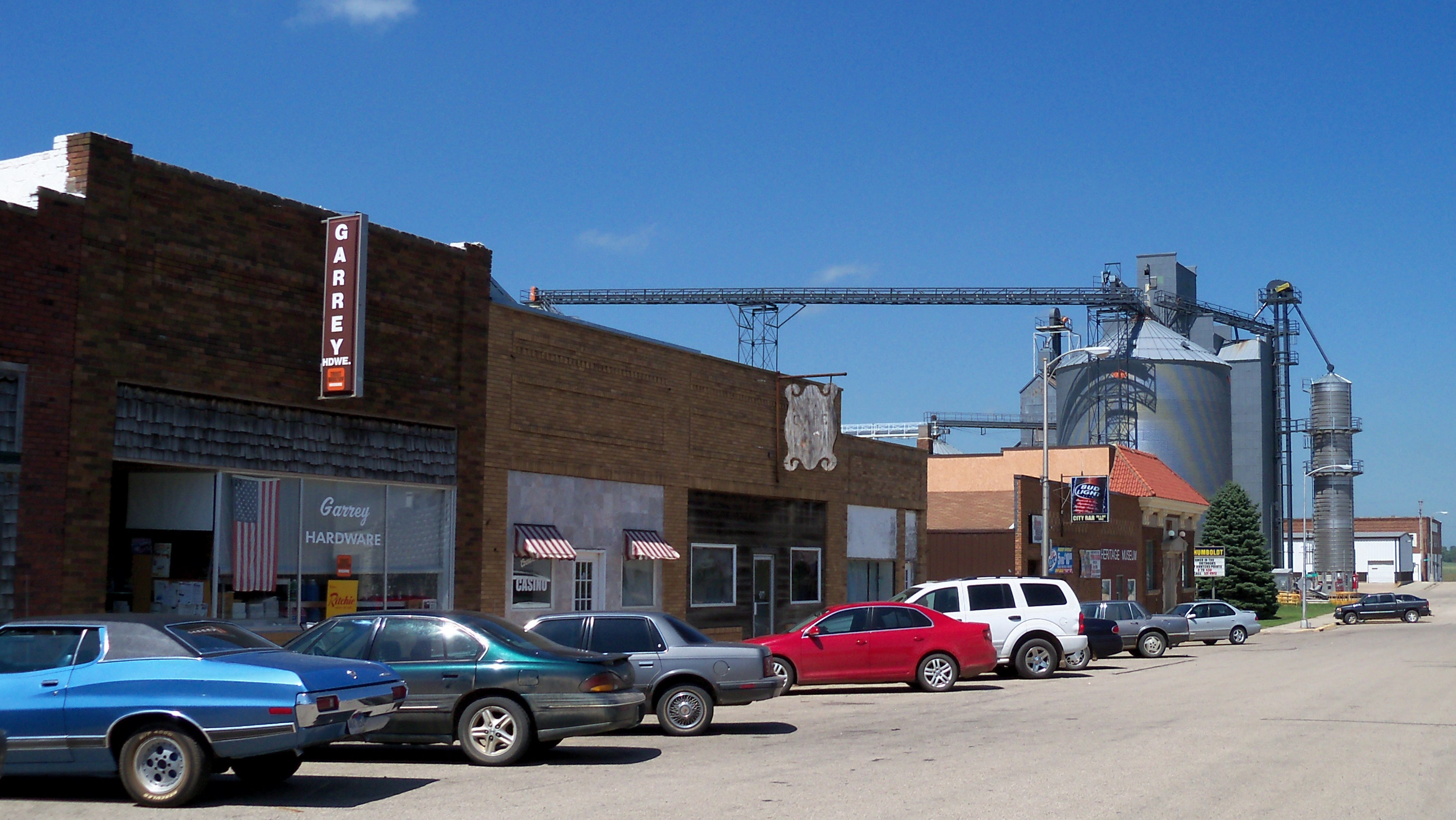 Downtown Humboldt, South Dakota, USA.